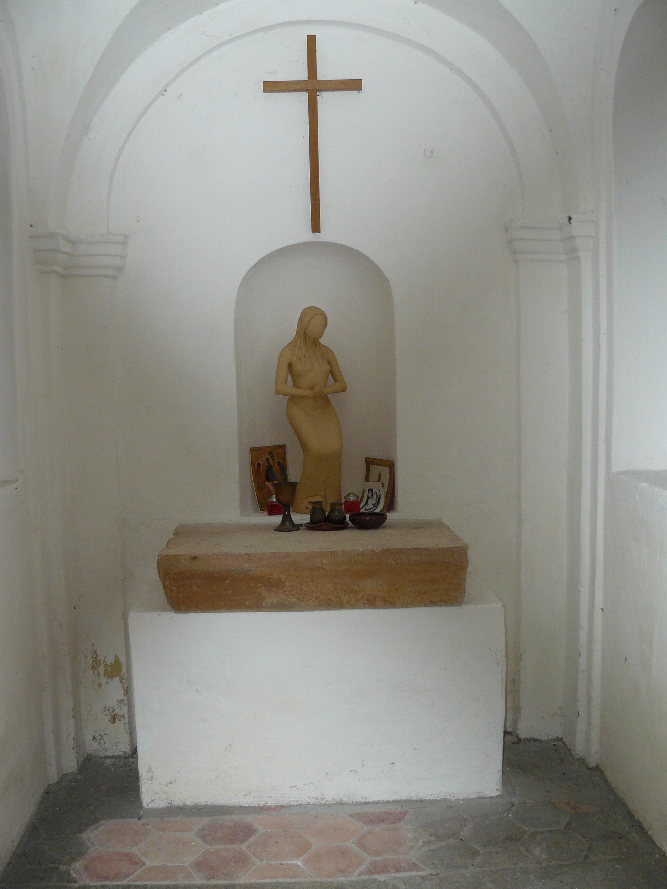 Interior of Mari Magdalena Chapel - Zebin, Czech Republic